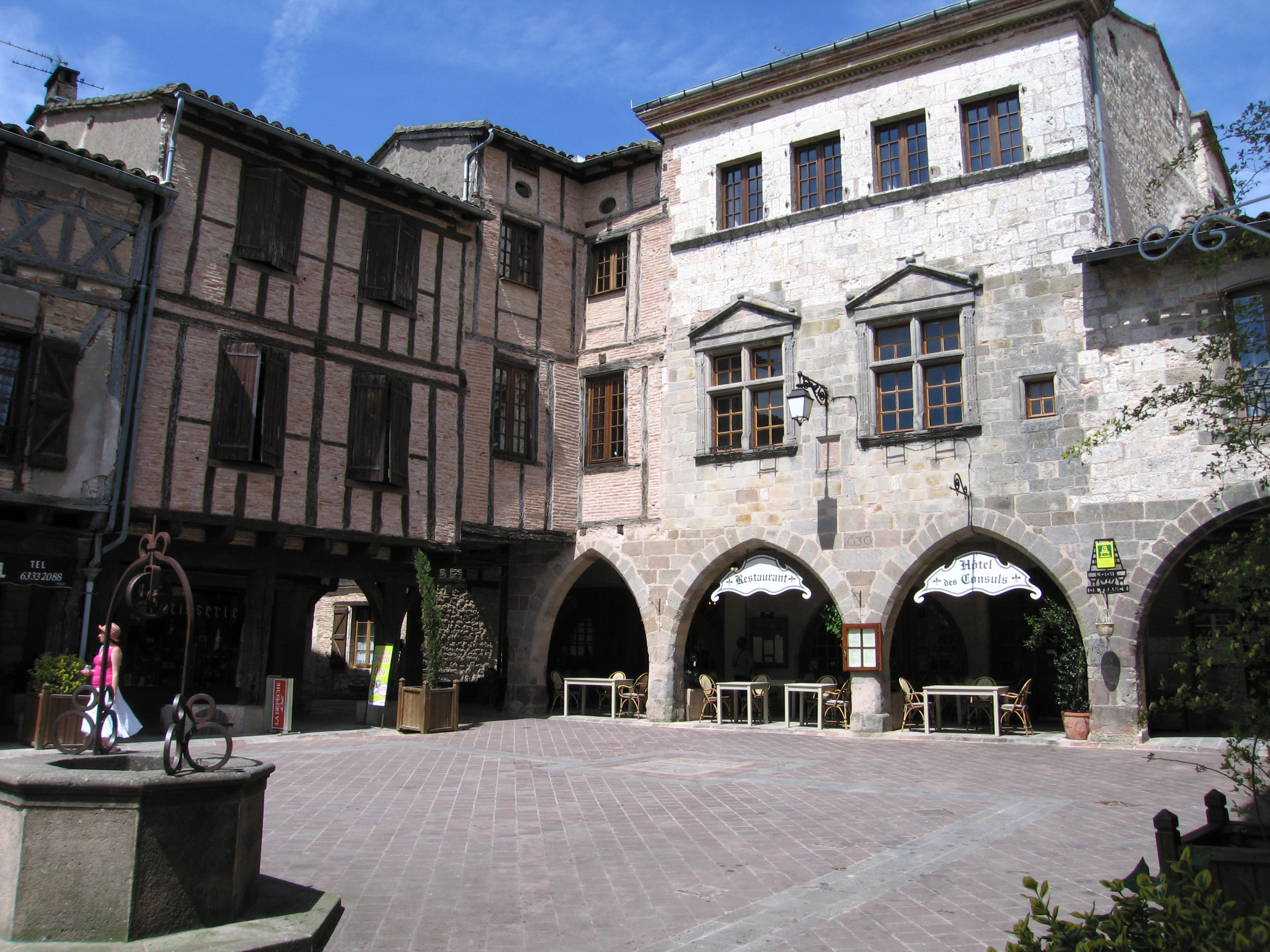 Central Place in Castelnau-de-Montmiral, Tarn, France